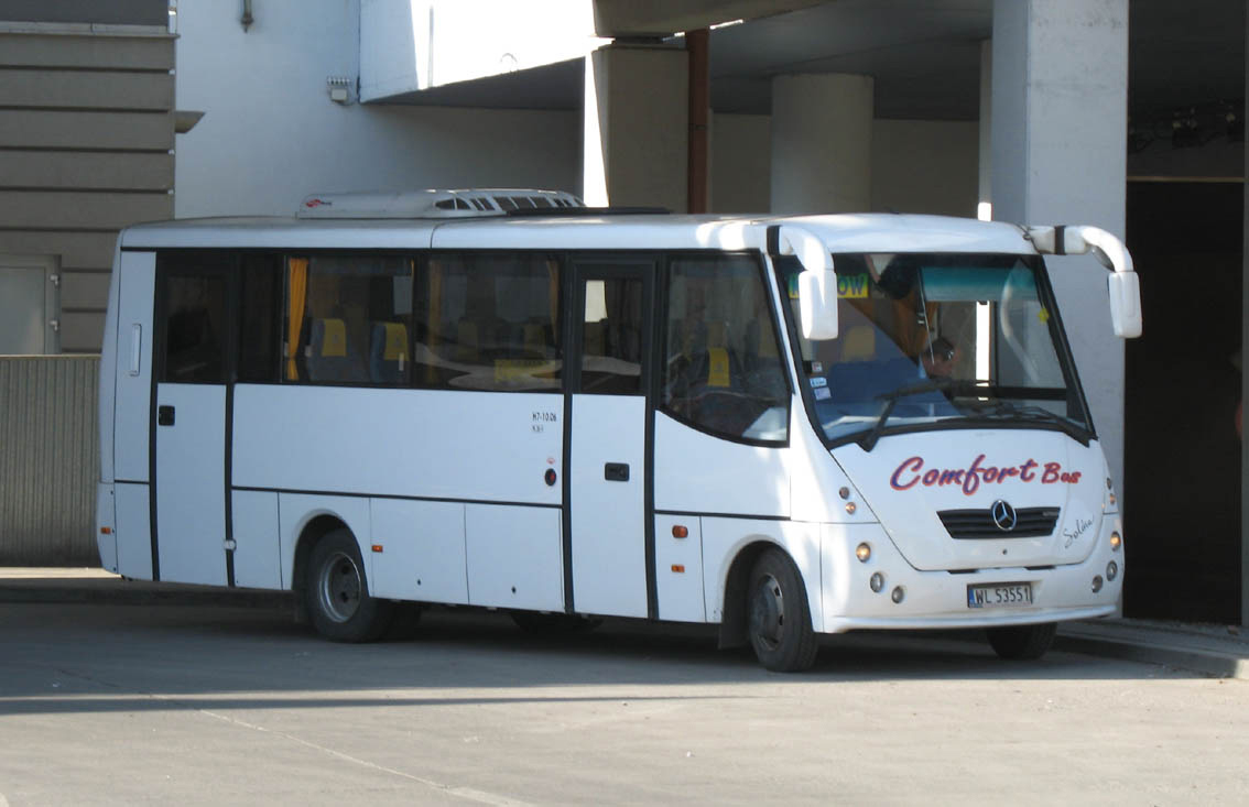 Autosan H7-10.06MB Solina bus in Kraków, Poland. Built 2006, Comfort Bus from Wadowice operator.